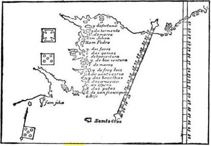 Detail of an adaptation of the Pedro Reinel map (1504), showing Newfoundland; from Samuel Edward Dawson, The Saint Lawrence, Its Basin & Border-lands, F. A. Stokes company, 1905